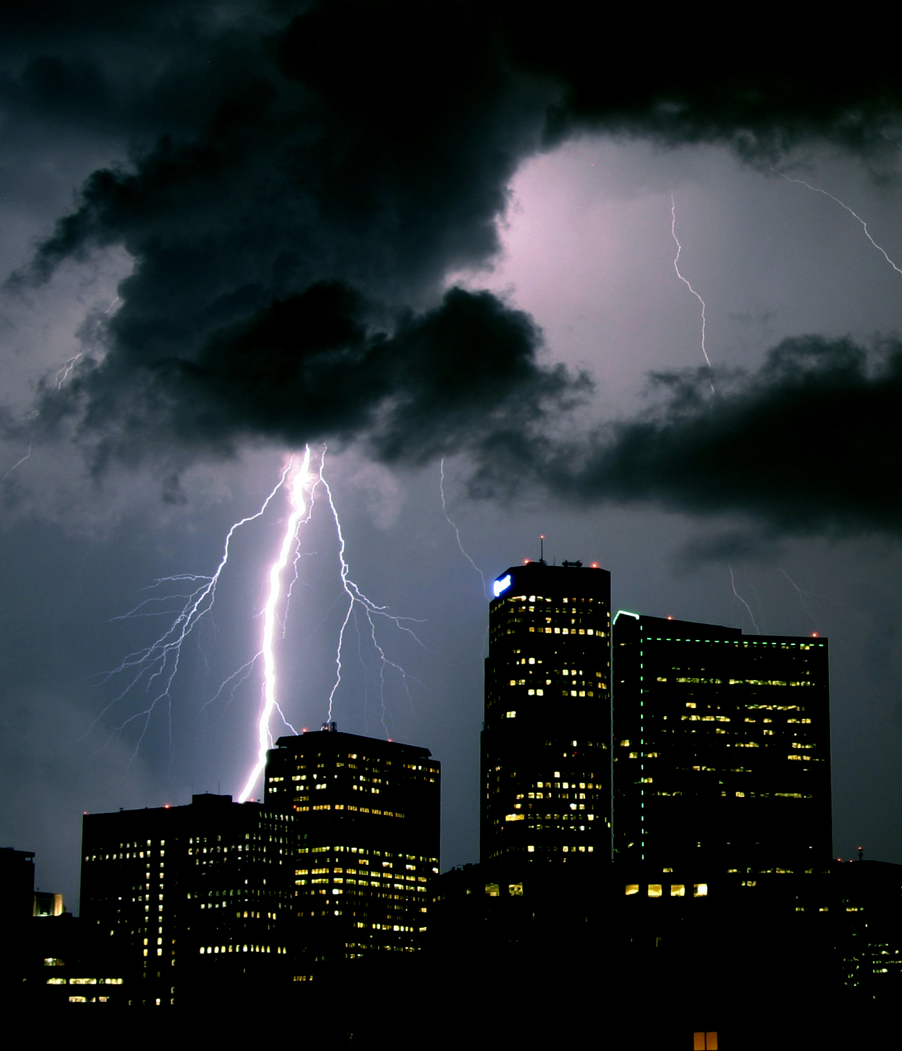 A large bolt strikes west of downtown Denver, with the west tower in plain view.